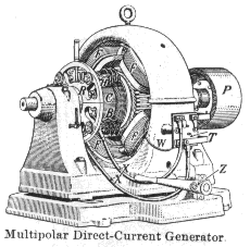 Multipolar direct-current generator from the 1911 Webster's Unabridged Dictionary